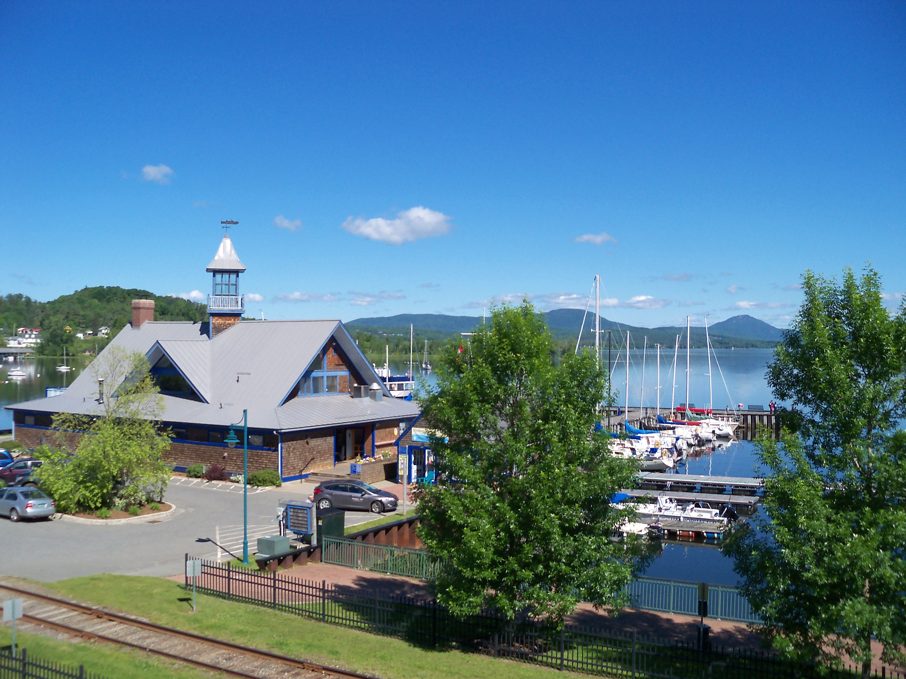 View of Newport, Vermont, USA.